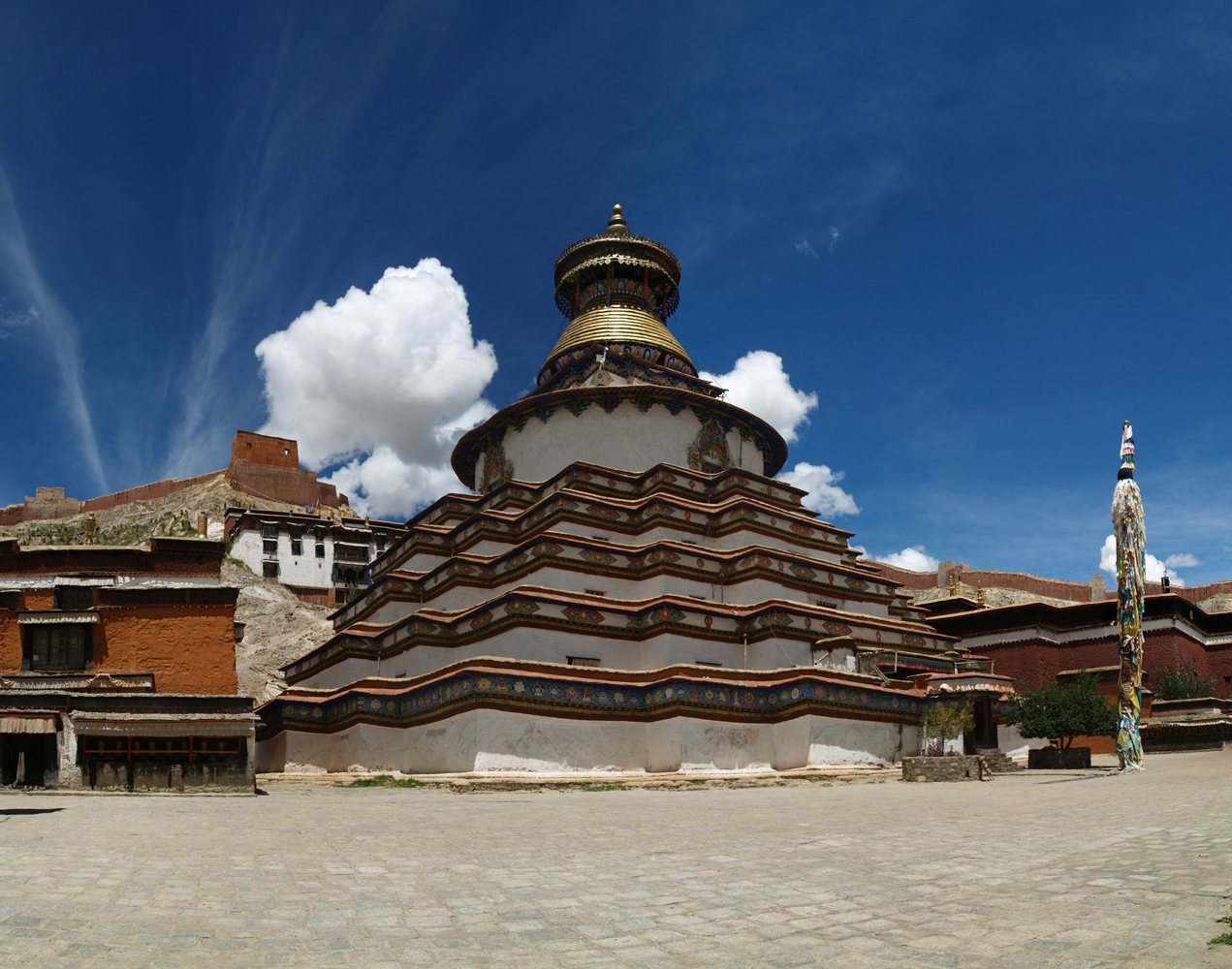 The worlds largest tibetan stupa